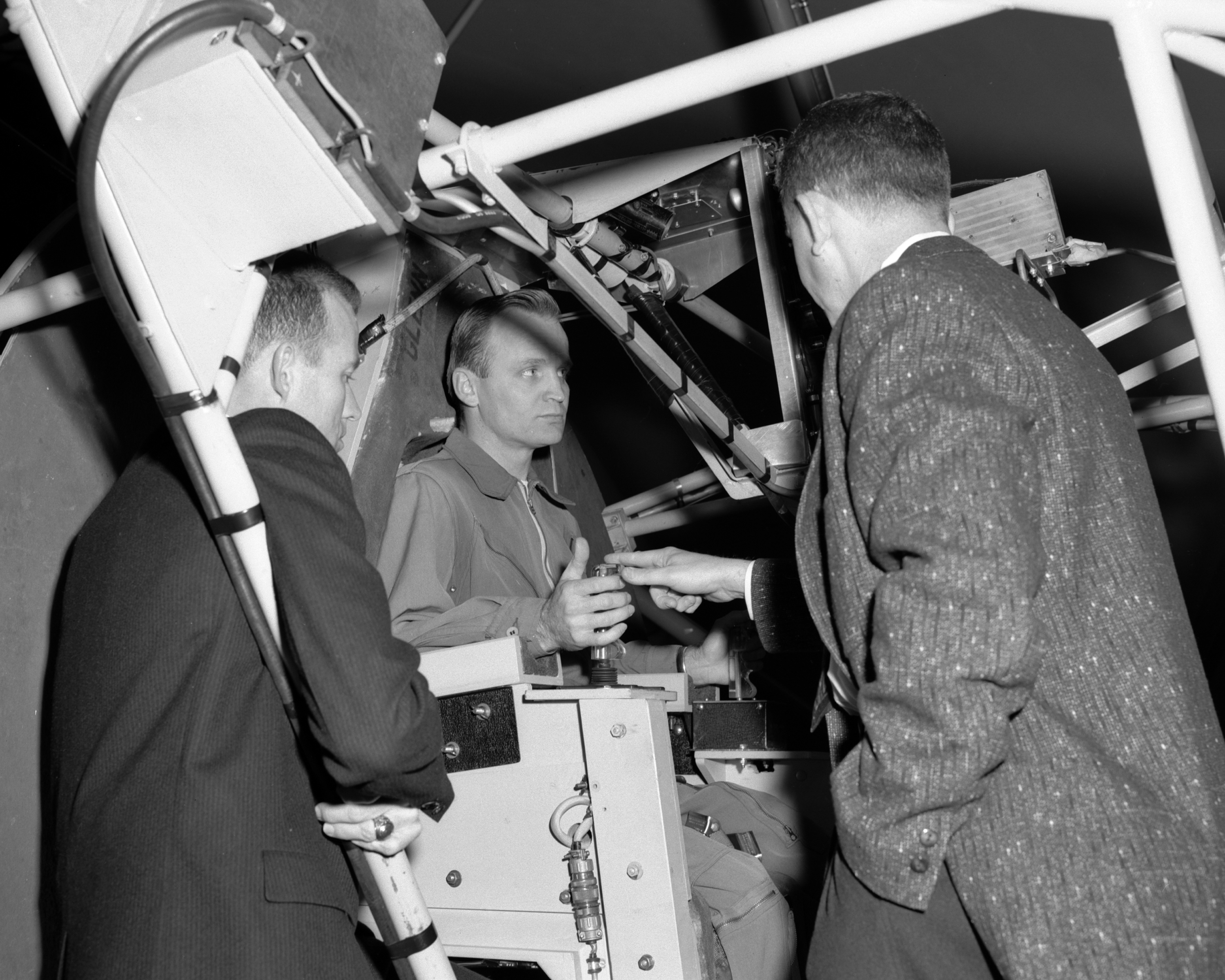 Project Mercury - Astronaut Leroy Gordon Cooper Junior (left) and Warren North NASA (in chair) testing the gimbaling rig in the Altitude Wind Tunnel at NASA Lewis Research Center. NASA Identifier: C-1960-52969